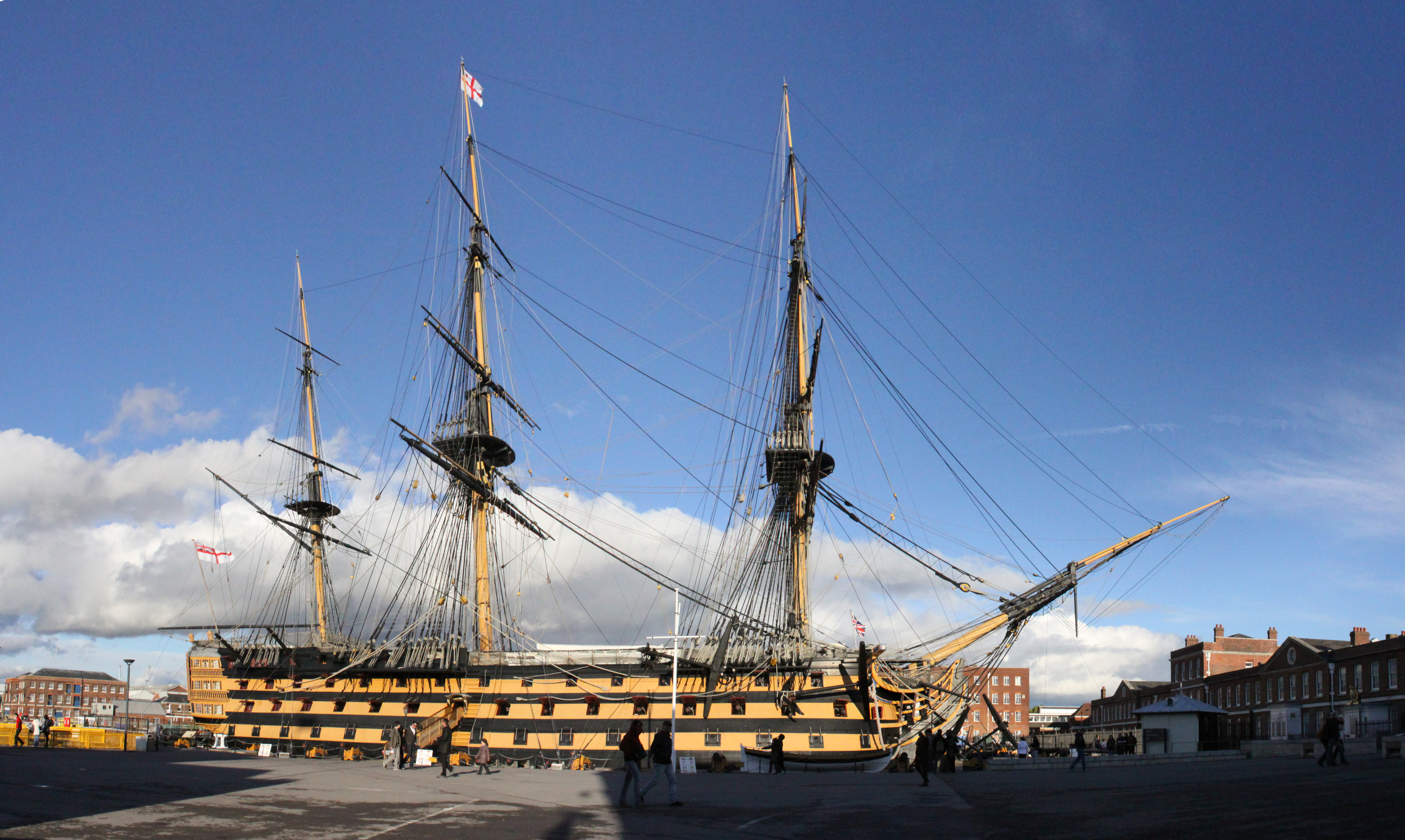 HMS Victory at Portsmouth